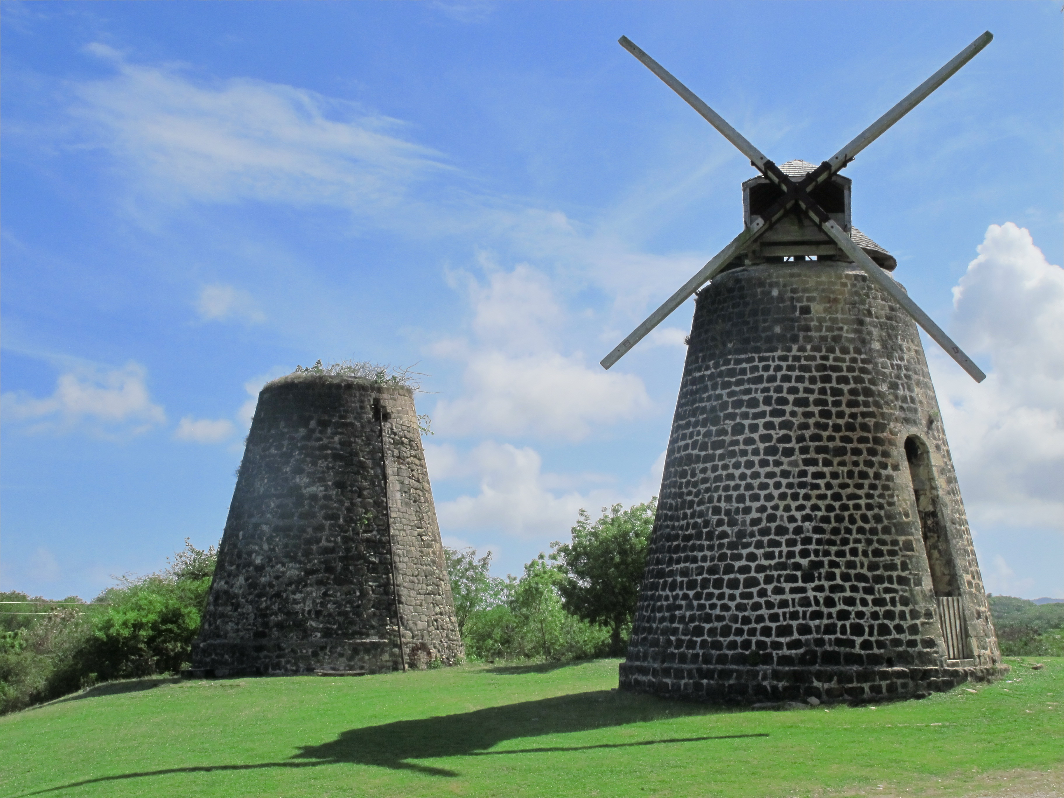 Windmill in Antigua that was once used for milling sugar cane.